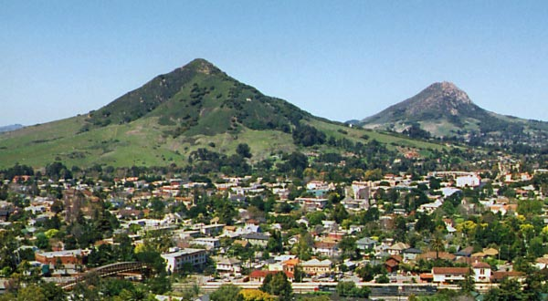 San Luis Obispo, California. View from Terrace Hill showing the city, Cerro San Luis Obispo and Bishop Peak. The San Luis Obispo railroad station is seen at bottom right.